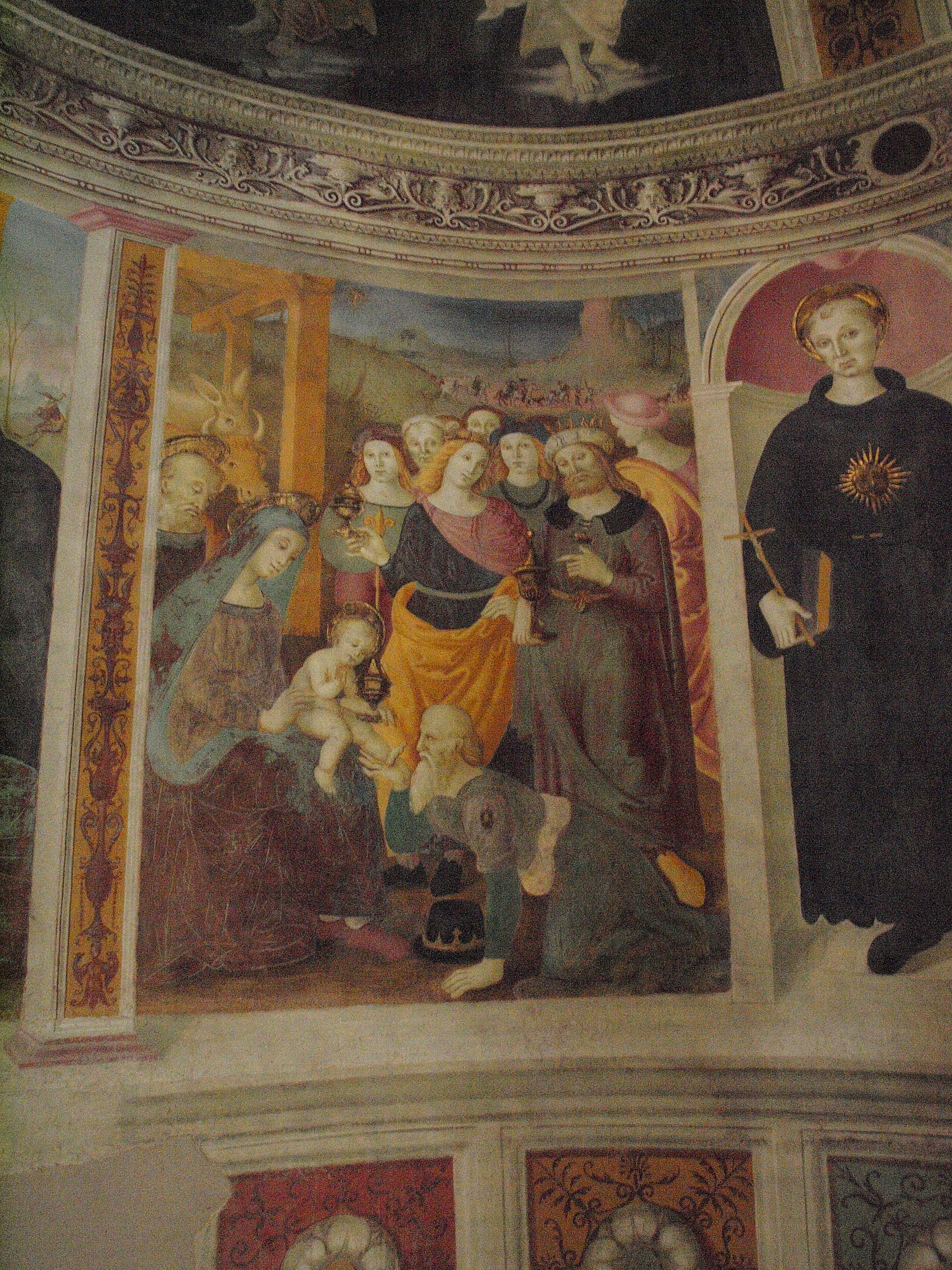 The Adoration of the Magi